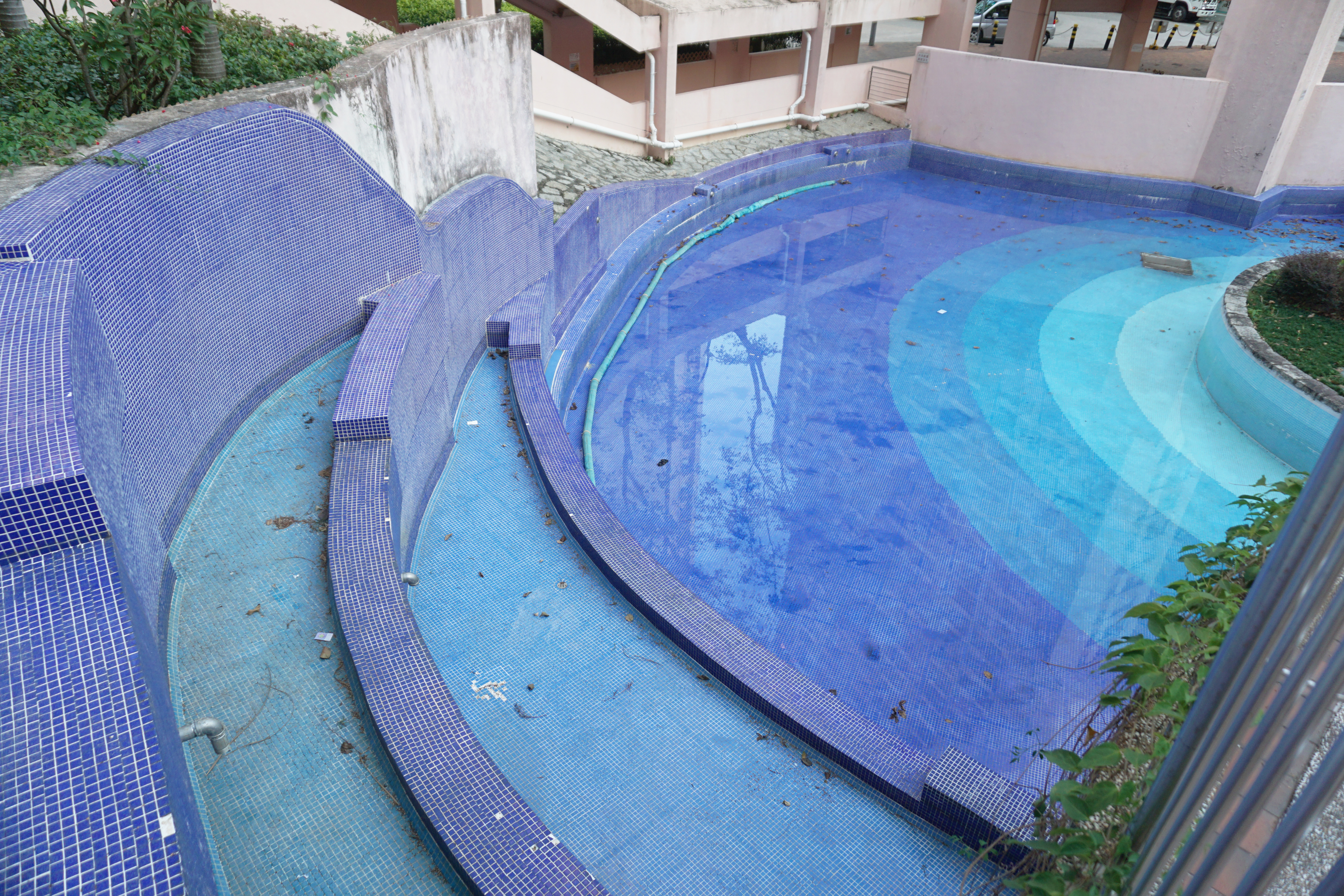 Po Pui Court in Kwun Tong, Hong Kong.